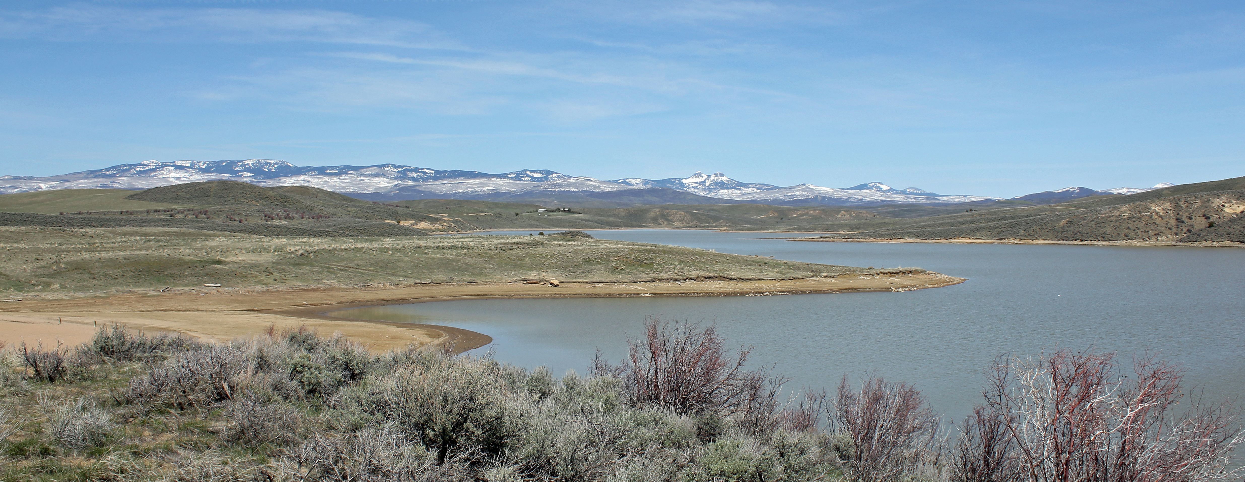 A view of Elkhead State Park, showing Elkhead Reservoir. The park is located in Routt and Moffat counties in Colorado (the county line straddles the park). The mountains in the background are the Elkhead Mountains, and one of the mountains -- the one with the dual volcanic cores -- is called Bears Ears.